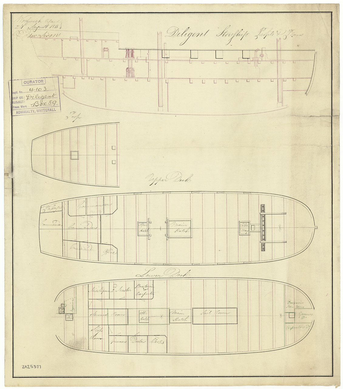 Plan showing an incomplete inboard profile, the poop deck, upper deck, and lower deck for Diligent (captured circa 1800), a captured French Storeship, used as a Storeship at Woolwich Dockyard. Black, green, and red ink on paper. Sheet: 436 mm x 385 mm